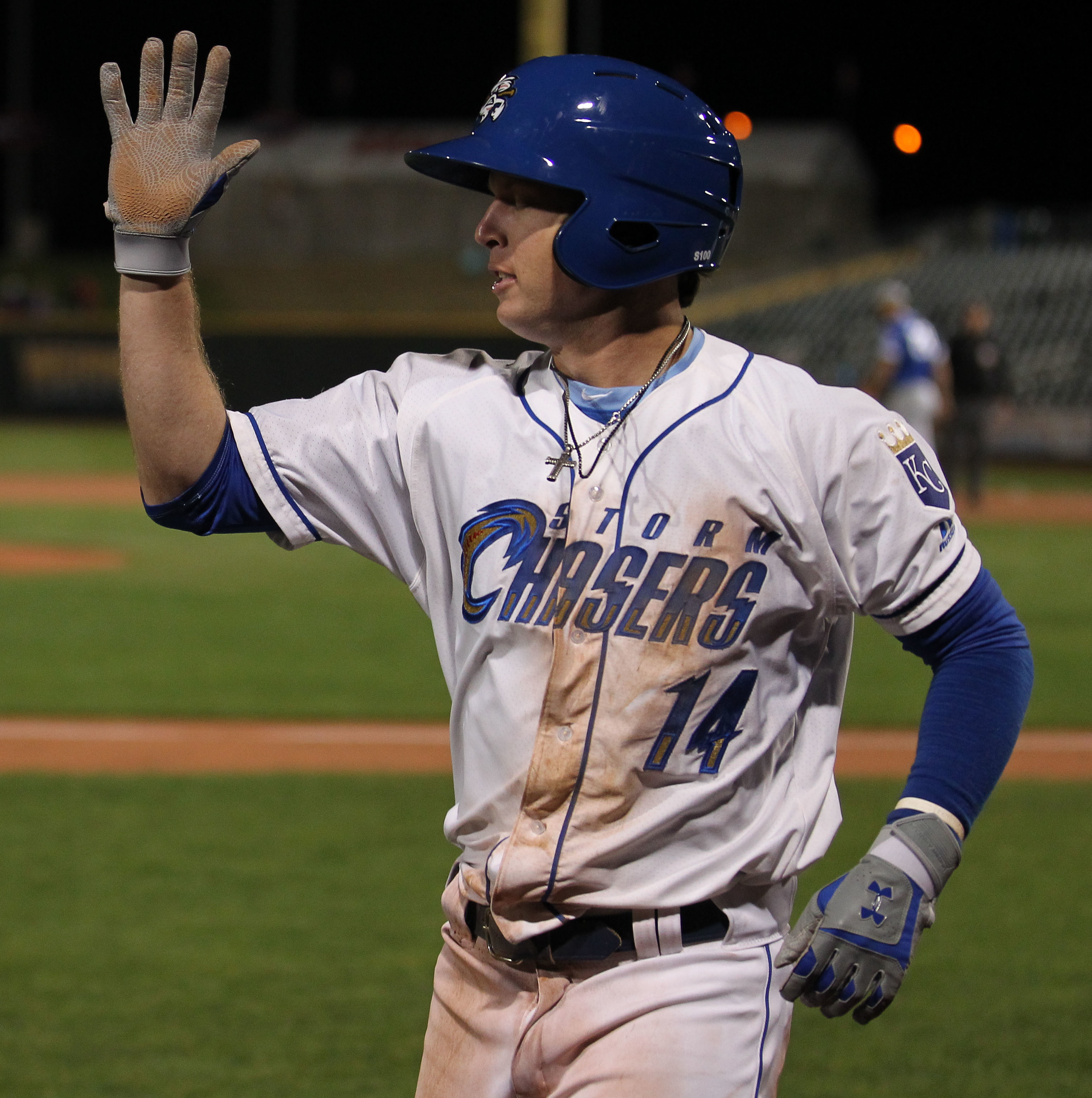 Brett Phillips with the Omaha Storm Chasers during a 2019 game at Werner Park in Nebraska